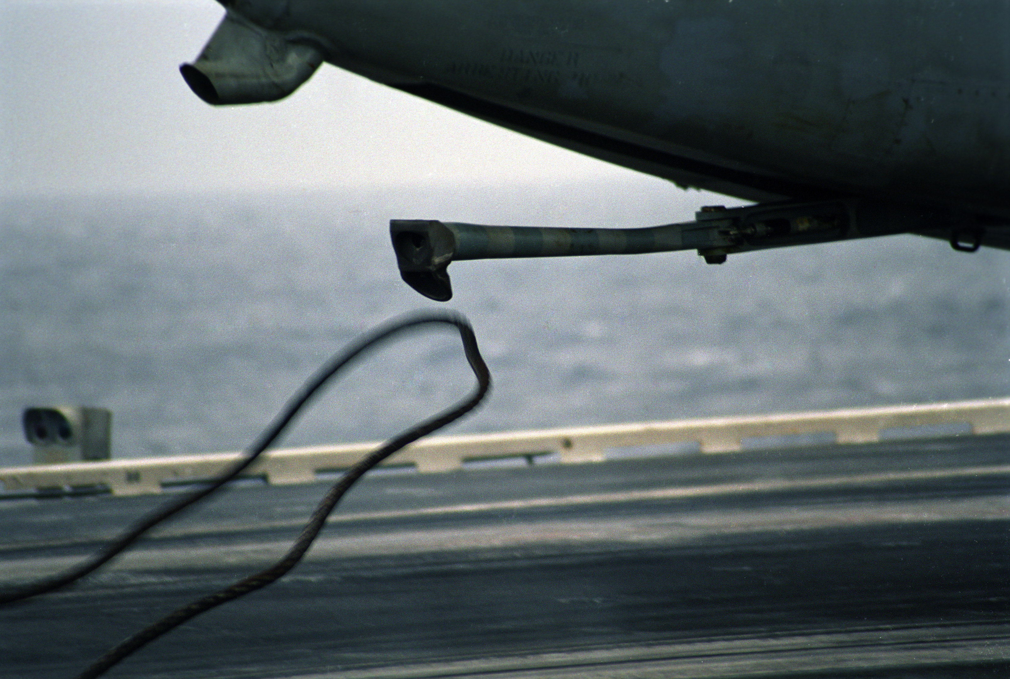 Pacific Ocean (Aug. 16, 2001) - An arresting wire falls away from an S-3B Viking's tail hook as it stops after landing aboard the aircraft carrier USS Constellation (CV 64). The S-3B Viking is assigned to the “Red Griffins” of Sea Control Squadron Three Eight (VS-38). Constellation and Carrier Air Wing Two (CVW-2) are currently on their way home to San Diego, Calif. after completing a deployment in the Persian Gulf. U.S. Navy photo by Photographer's Mate Airman Daniel J. McLain. (RELEASED)